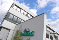 BIOMARIS Bremen